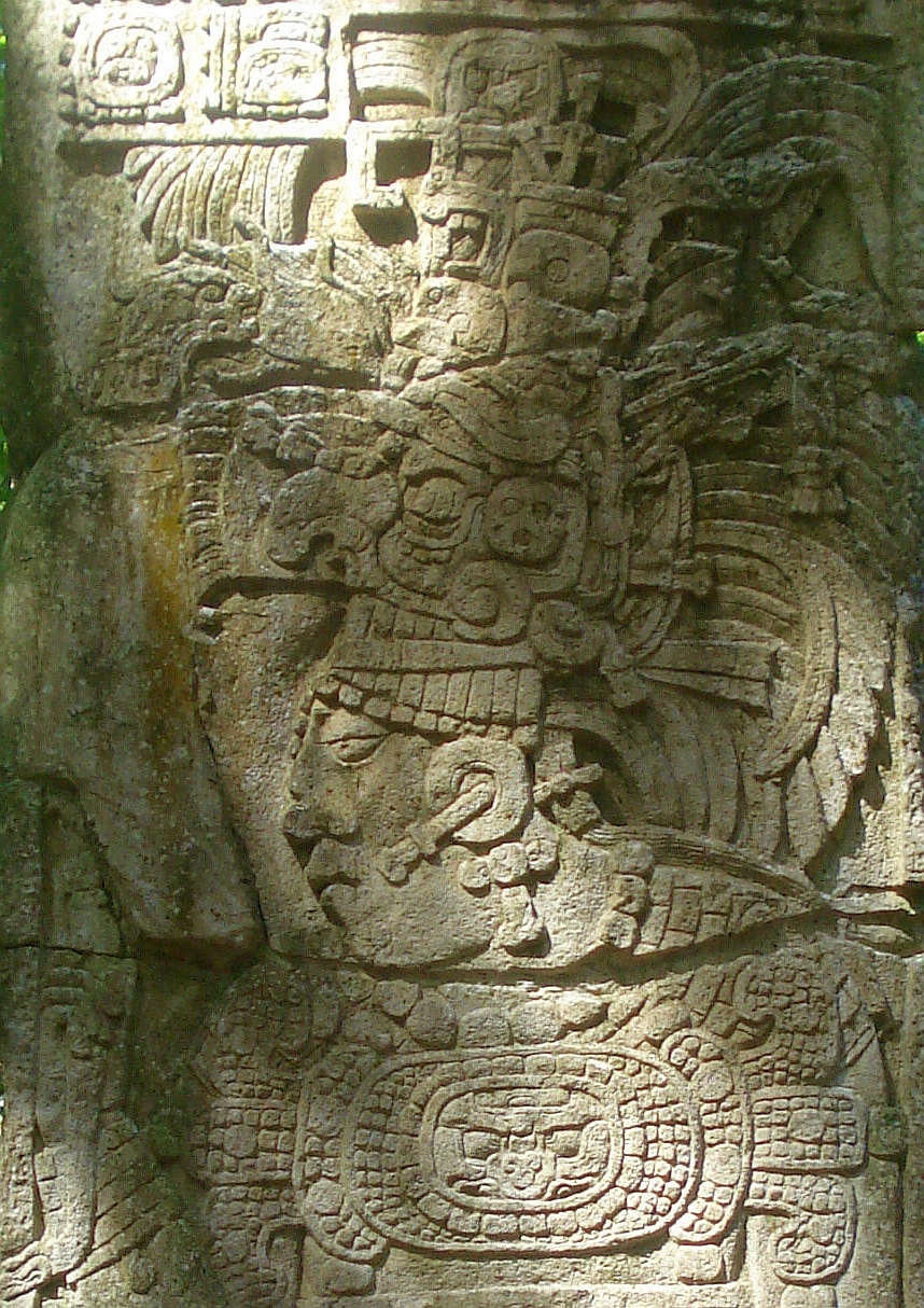 Detail of Stela depicting Ruler 2 in Dos Pilas, Guatemala